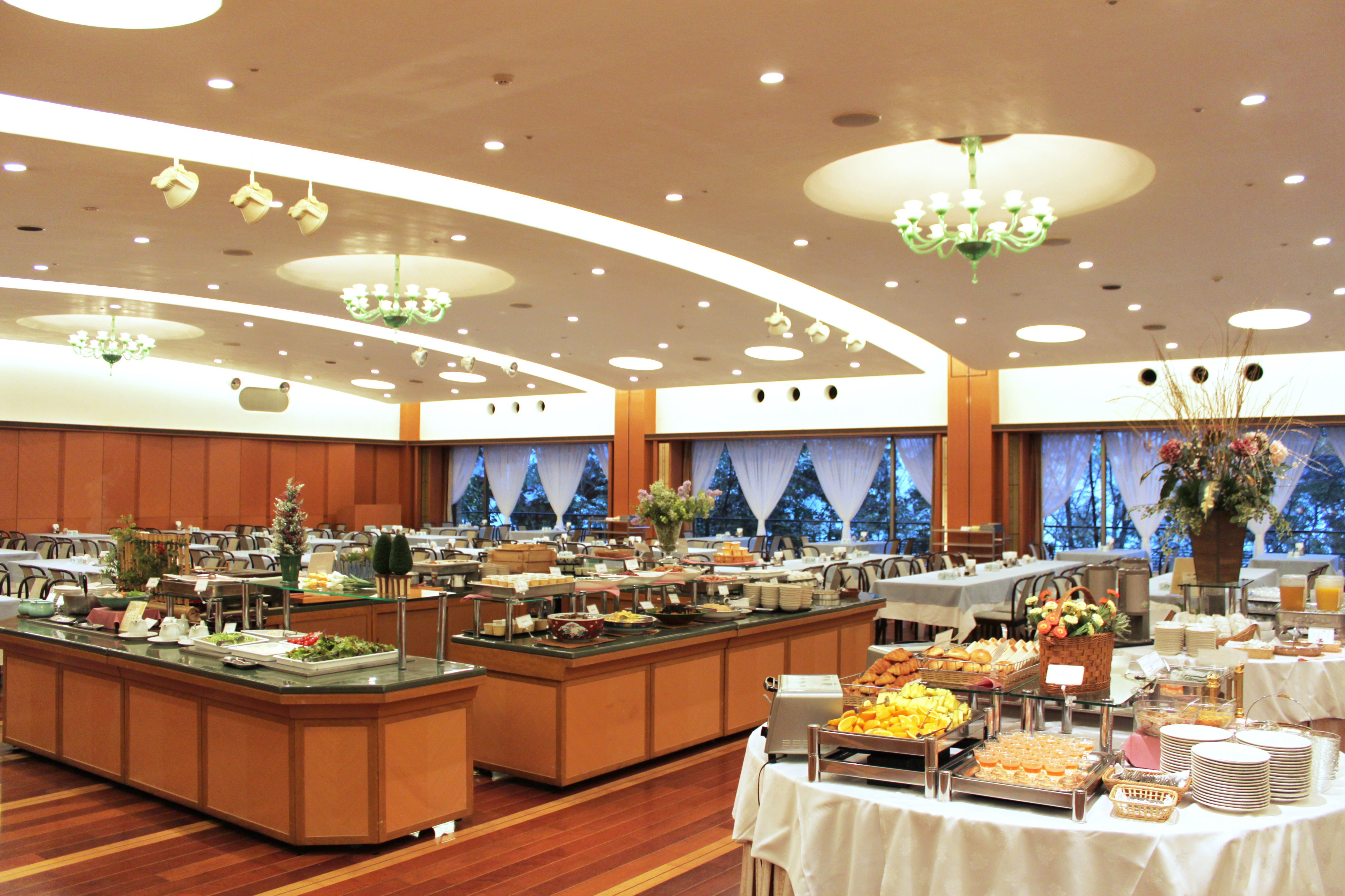 Breakfast buffet of Japanese & Westnern-style breakfast foods at Nishimuraya Shogetsutei in Kinosaki Onsen, Japan. Pictures are for sample only. Menus are subject to change without notice.